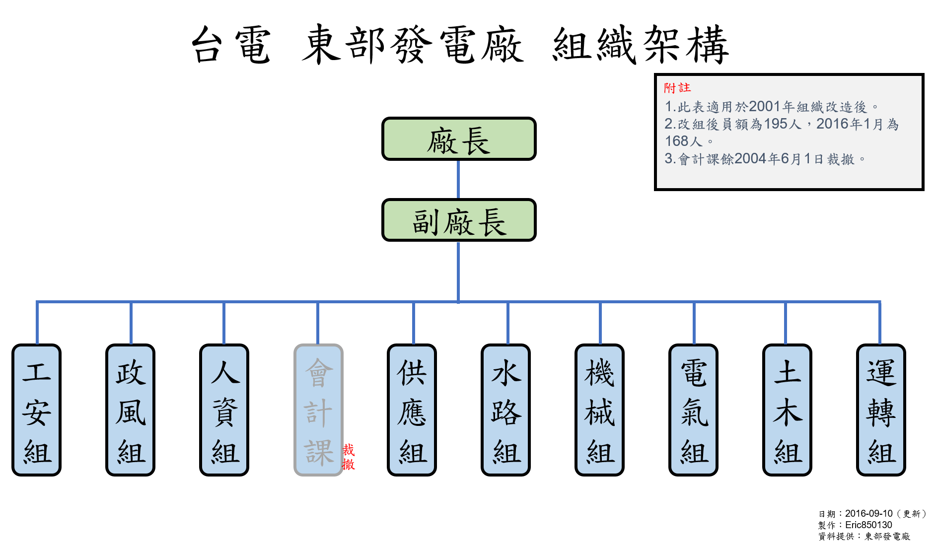 Organizational chart of Eastern Power Station.